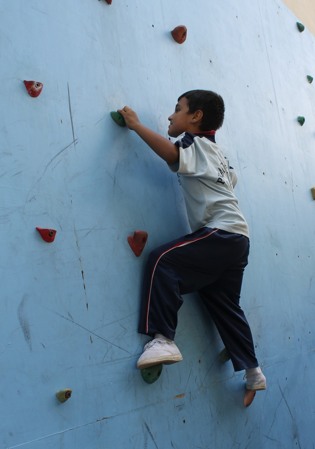 Wall Climbing